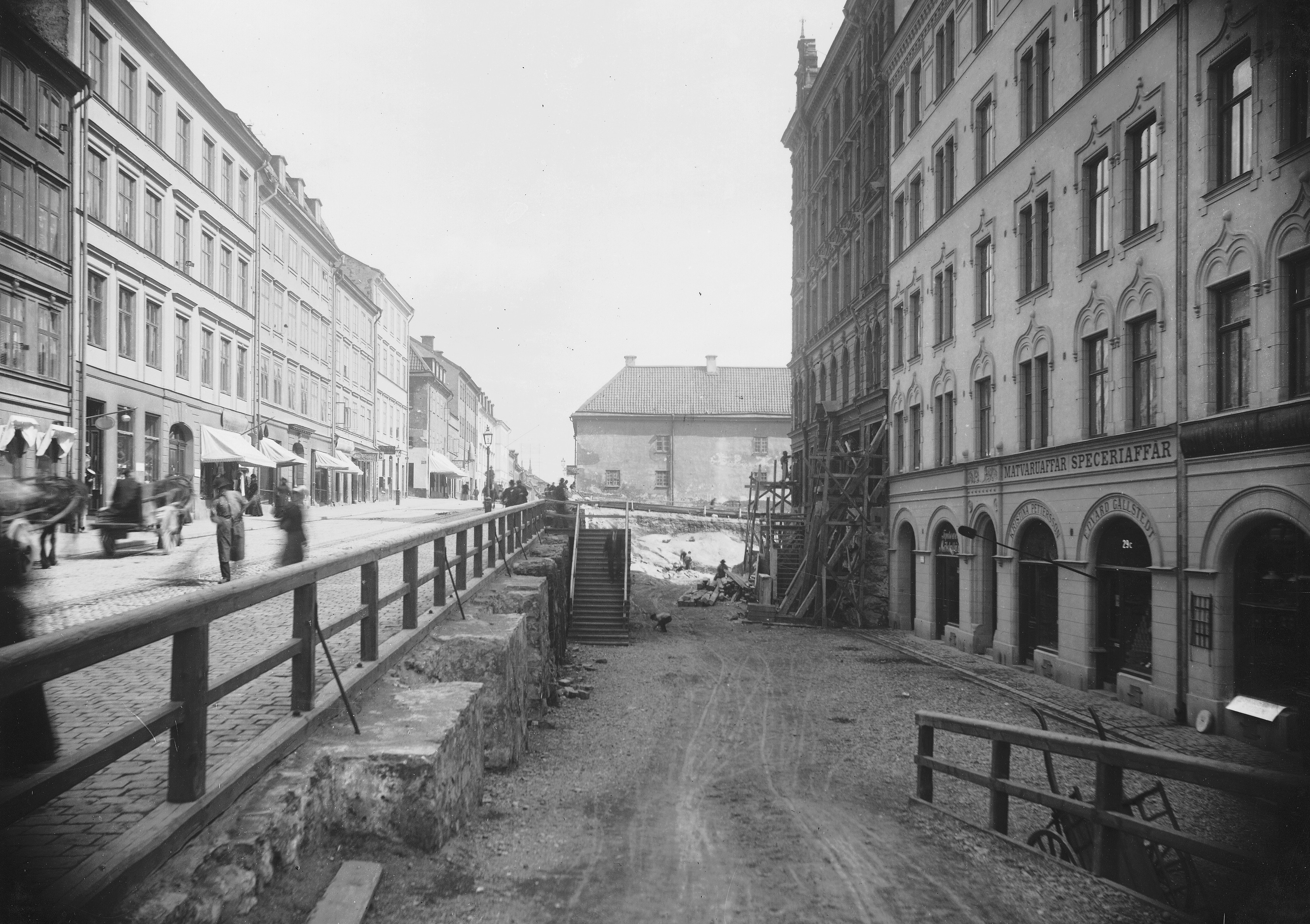 Hornsgatan in Stockholm 1901